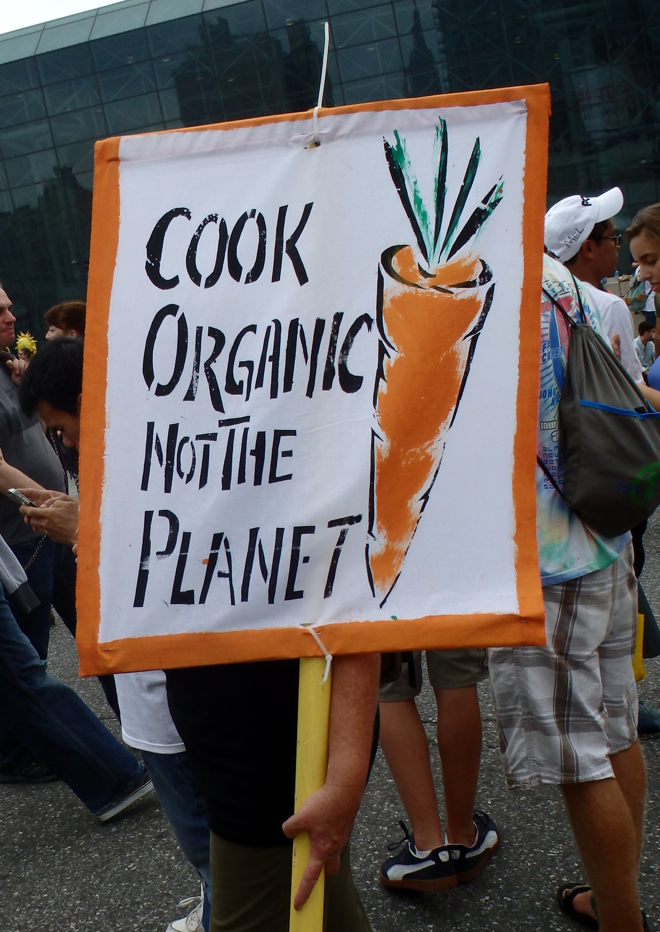 Placard "Cook organic, not the planet" at the People's Climate March (2014).